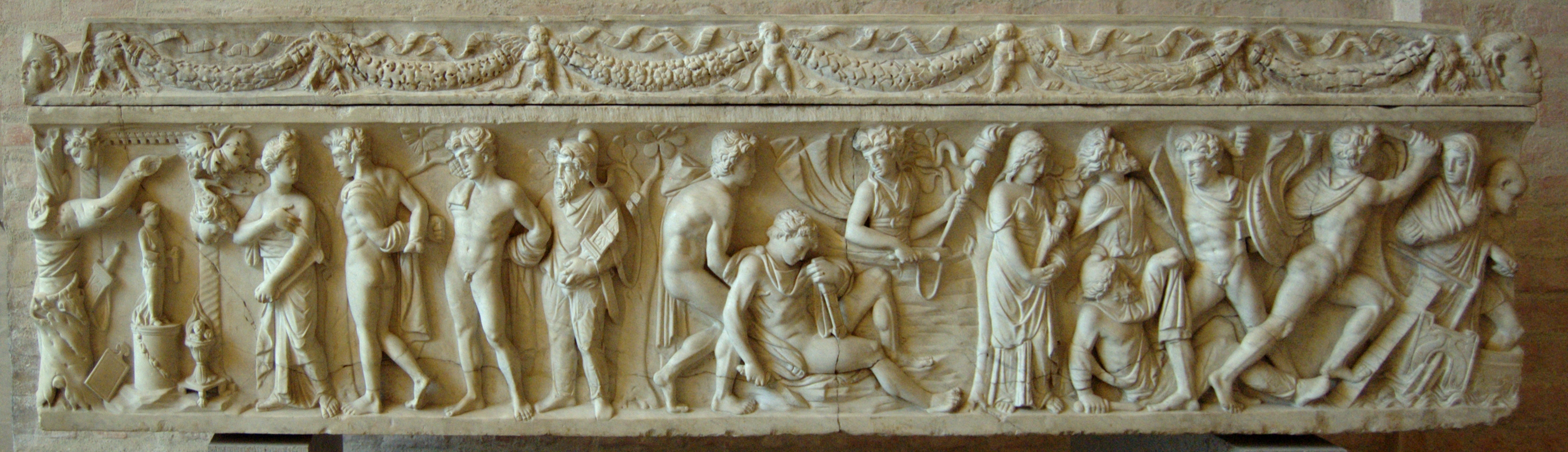 Roman sarcophagus: Orestes and Iphigeneia (front side). Center, Orestes and Pylades after their arrival in the barbarian country of Tauris (Crimea); the matricide Orestes is tormented by an Erinye (whip and snake) and supported by his friend. Left, sanctuary of taurian Artemis with cult icon, offering vase, tree and temple (hanging heads from human sacrifices); a Barbarian is pushing 2 prisonner friends (?) to priestress Iphigeneia. Right, Iphigenia with the stolen cult icon, victory of the barbarians; Iphigenia on the fleeing ship. Lid: garlands, erotes, eagle, heads and dolphins. 130–140 CE.